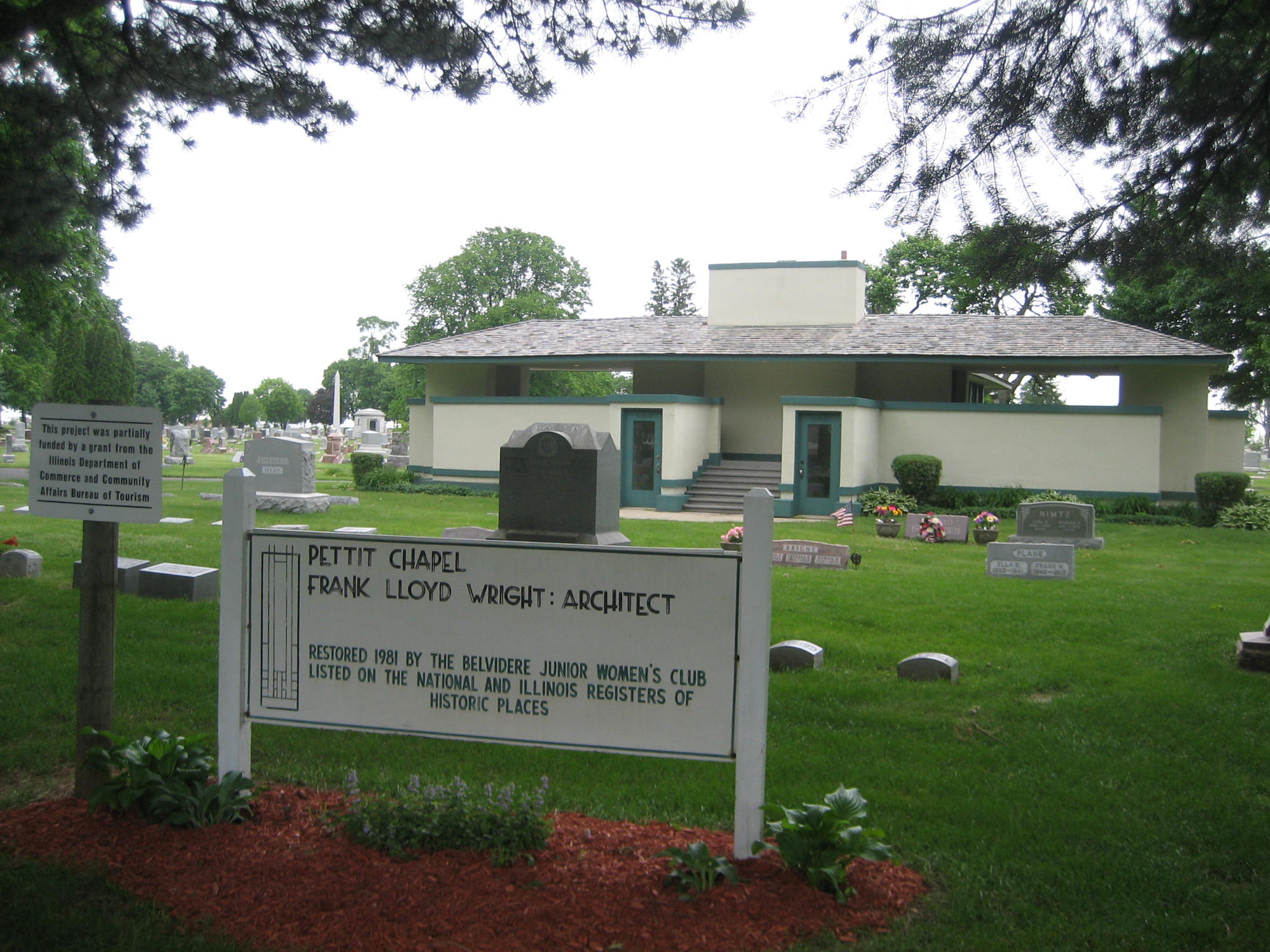 Pettit Memorial Chapel, designed by Frank Lloyd Wright. Belvidere Cemetery, Belvidere, Illinois. National Register of Historic Places.